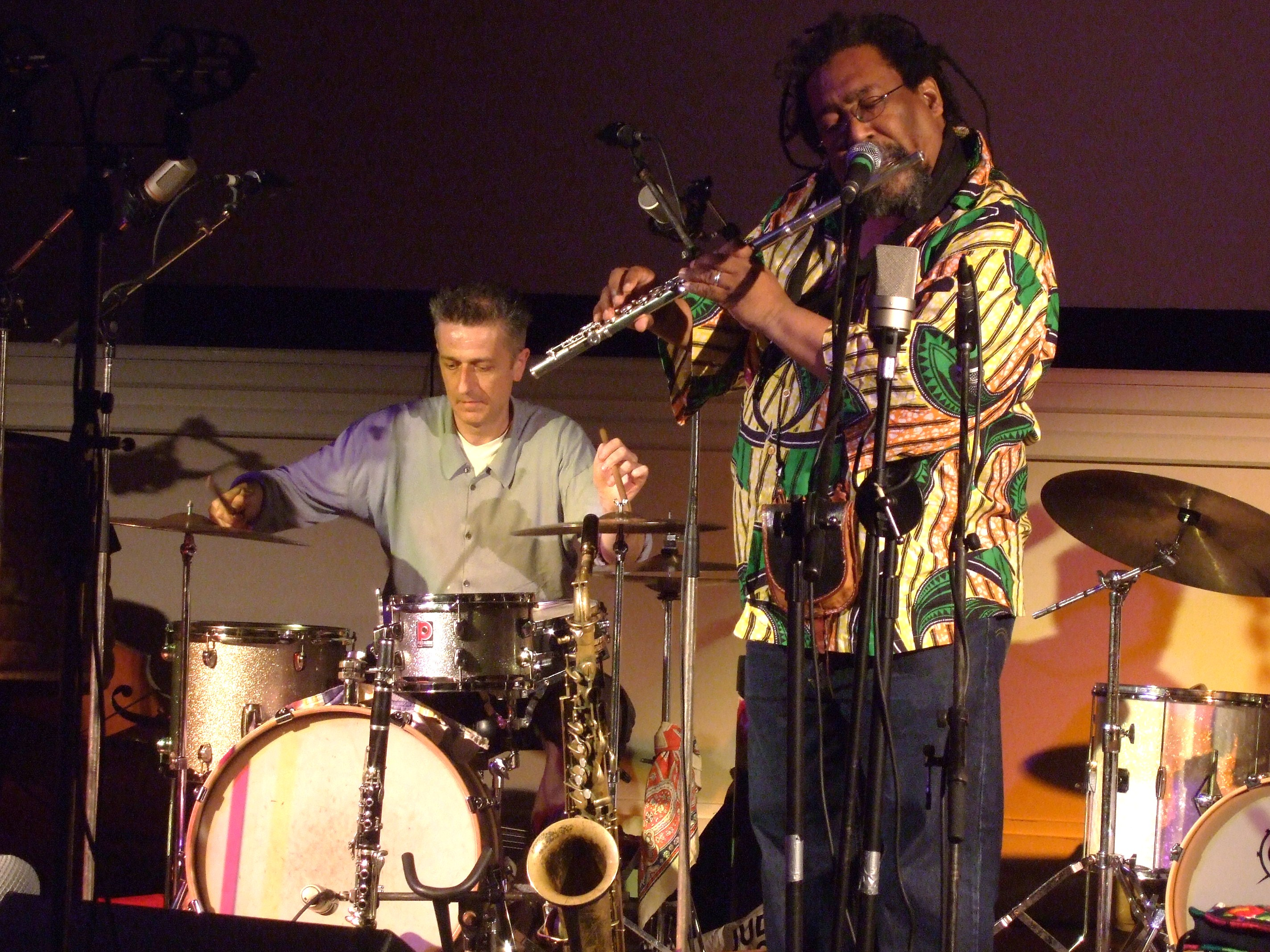 Reedsman Sabir Mateen and drummer Steve Noble